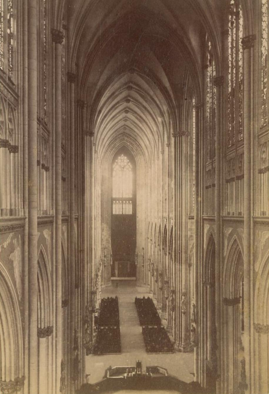 Cologne Cathedral, view into the Southern transept, Photo by Theodor Johann Hubertus Creifelds, born 1839 in Coblenz, died 1902 in Cologne, albumen print, ca. 1870.